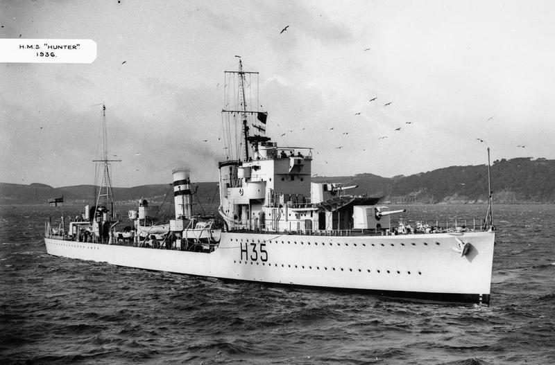 HMS Hunter Underway in Plymouth Sound